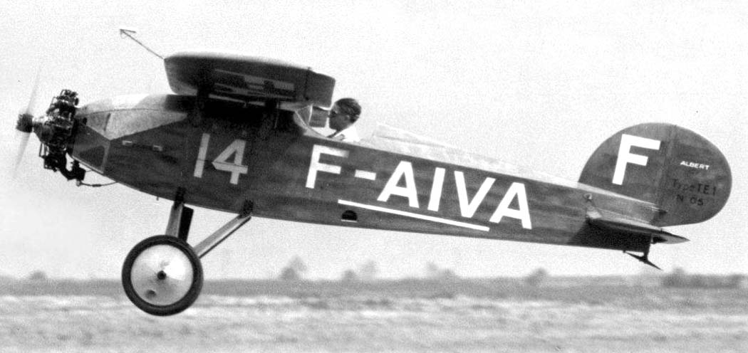 Albert A-120 photo from L'Air October 1,1929